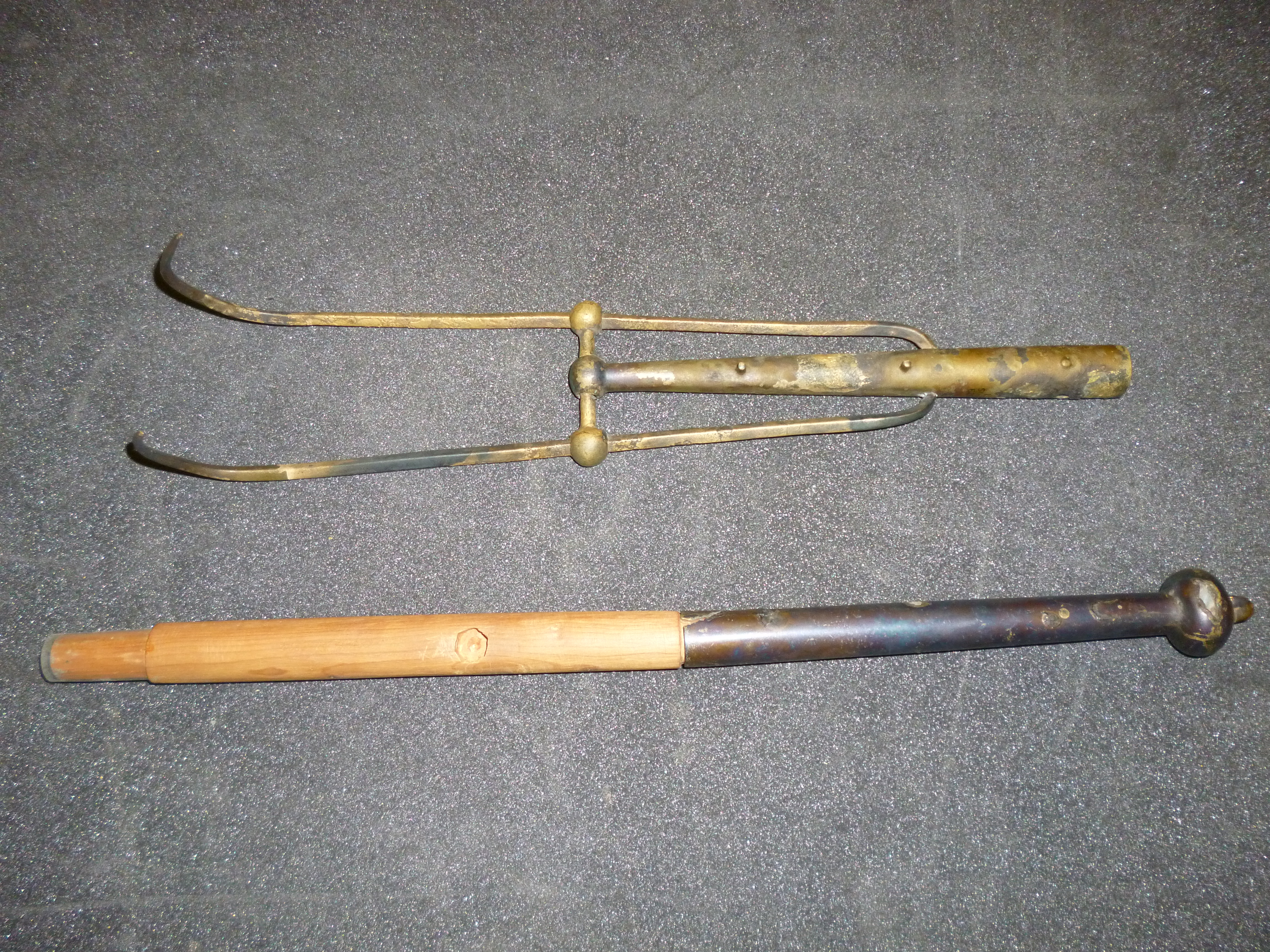 This image of the late Bronze-age (1150 – 950 BC) flesh-hook, found in 1929 in Little Thetford, Cambridgeshire (British Museum artifact 1929,0415.1.) was taken by Dr Peter Hoare at Franks House (British Museum). The wooden shaft is contemporary.